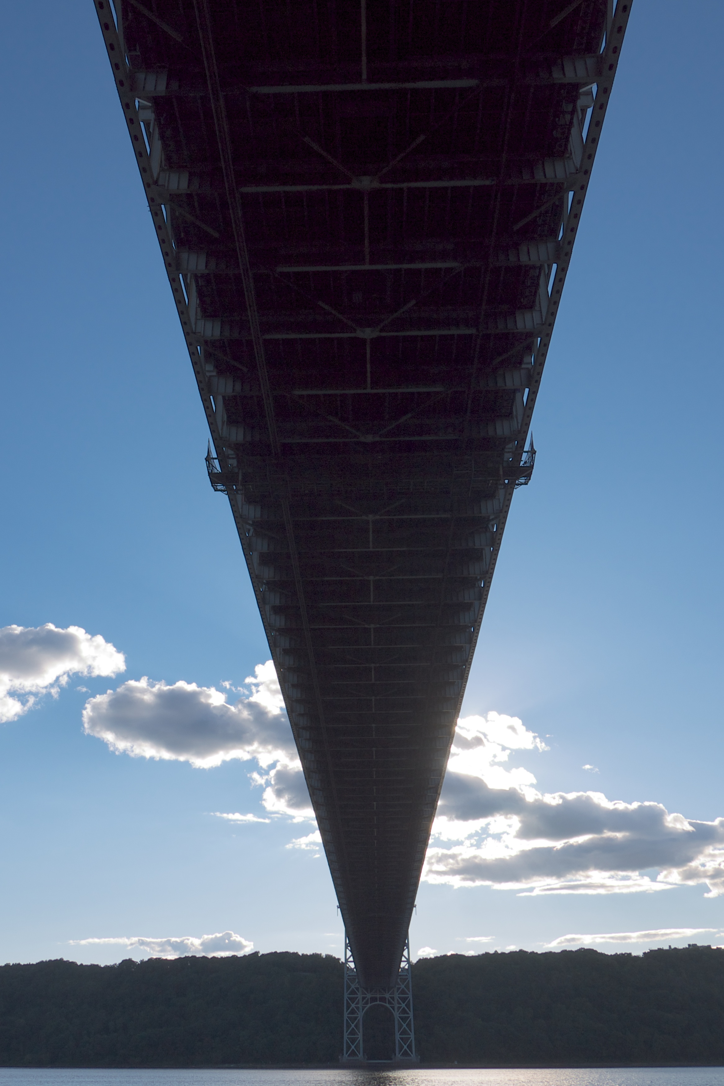 The main span of the George Washington Bridge, looking west from Manhattan.